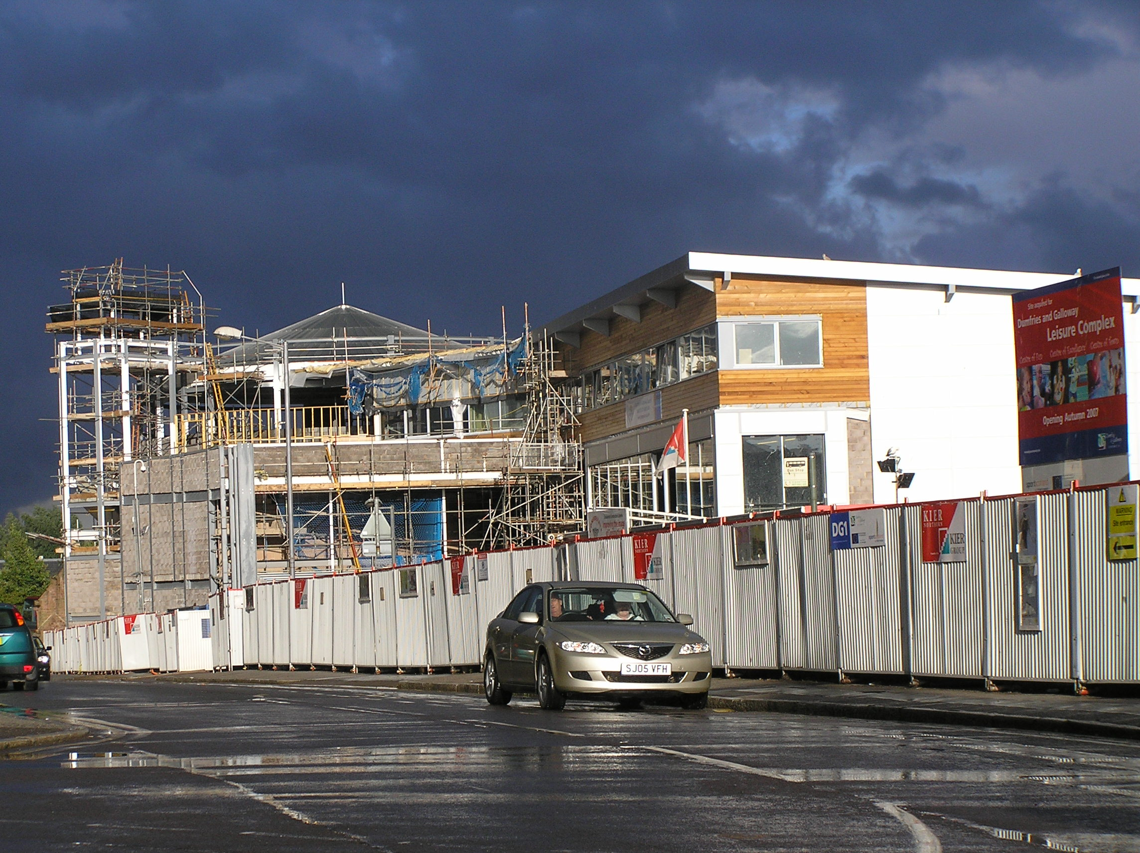 The leisure complex DG One in Dumfries, Scotland, under construction in 2007.